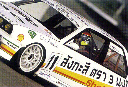 Charles Kwan driving a BMW for Three Crown Racing in the South East Asian Touring Car Race.